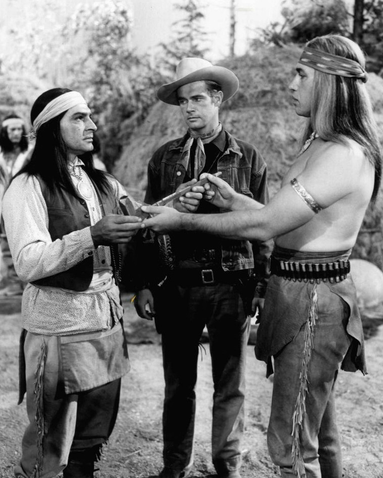 Photo of Anthony Caruso, John Lupton as Agent Tom Jeffords and Michael Ansara as Cochise from the television program Broken Arrow.